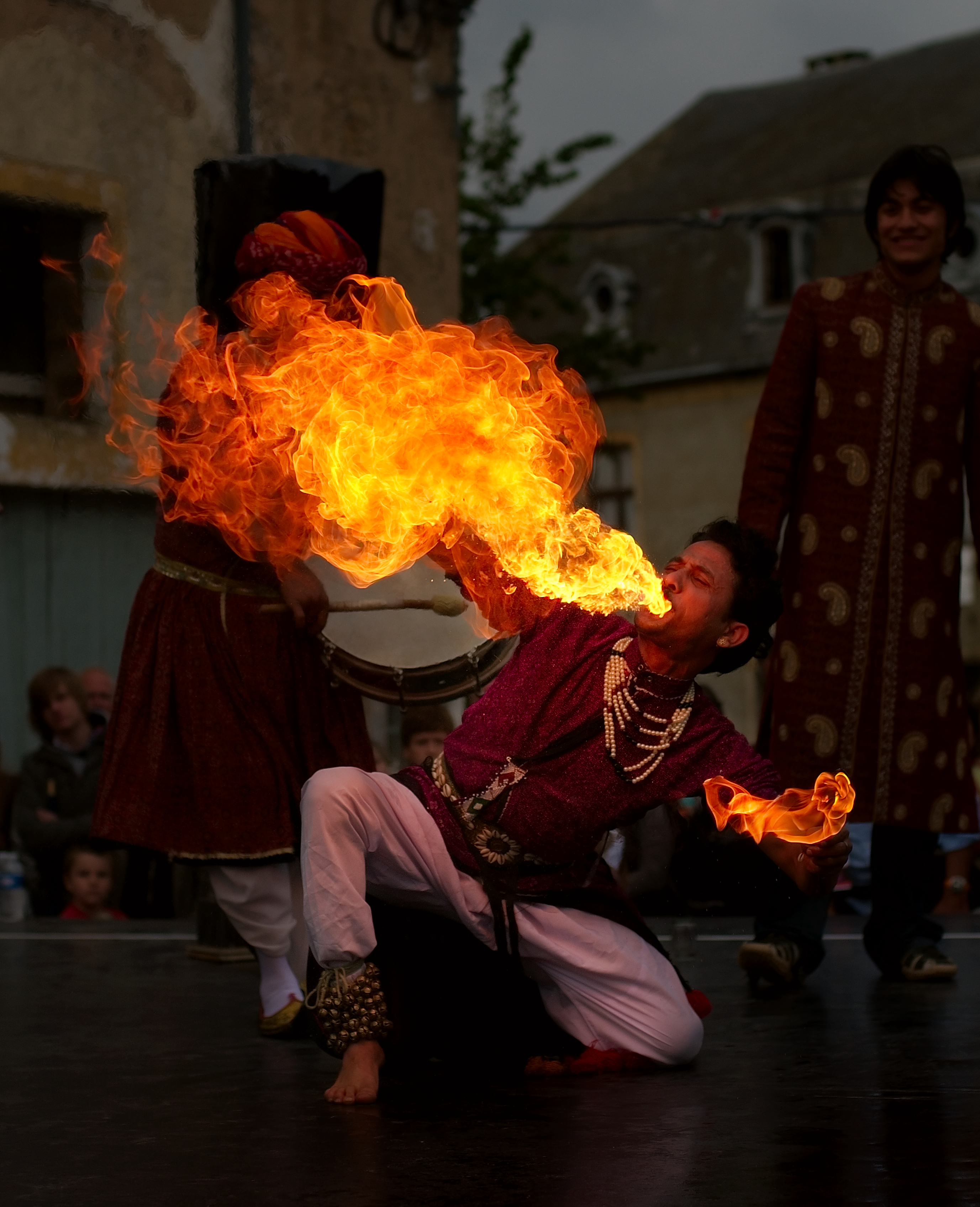 Fire breathing "Jaipur Maharaja Brass Band" Chassepierre Belgium